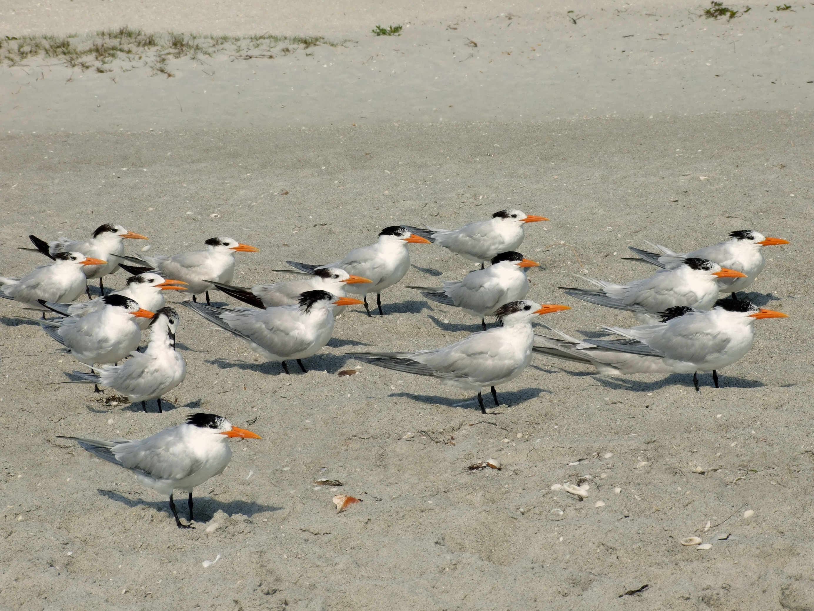 Royal Terns on Sanibel Island